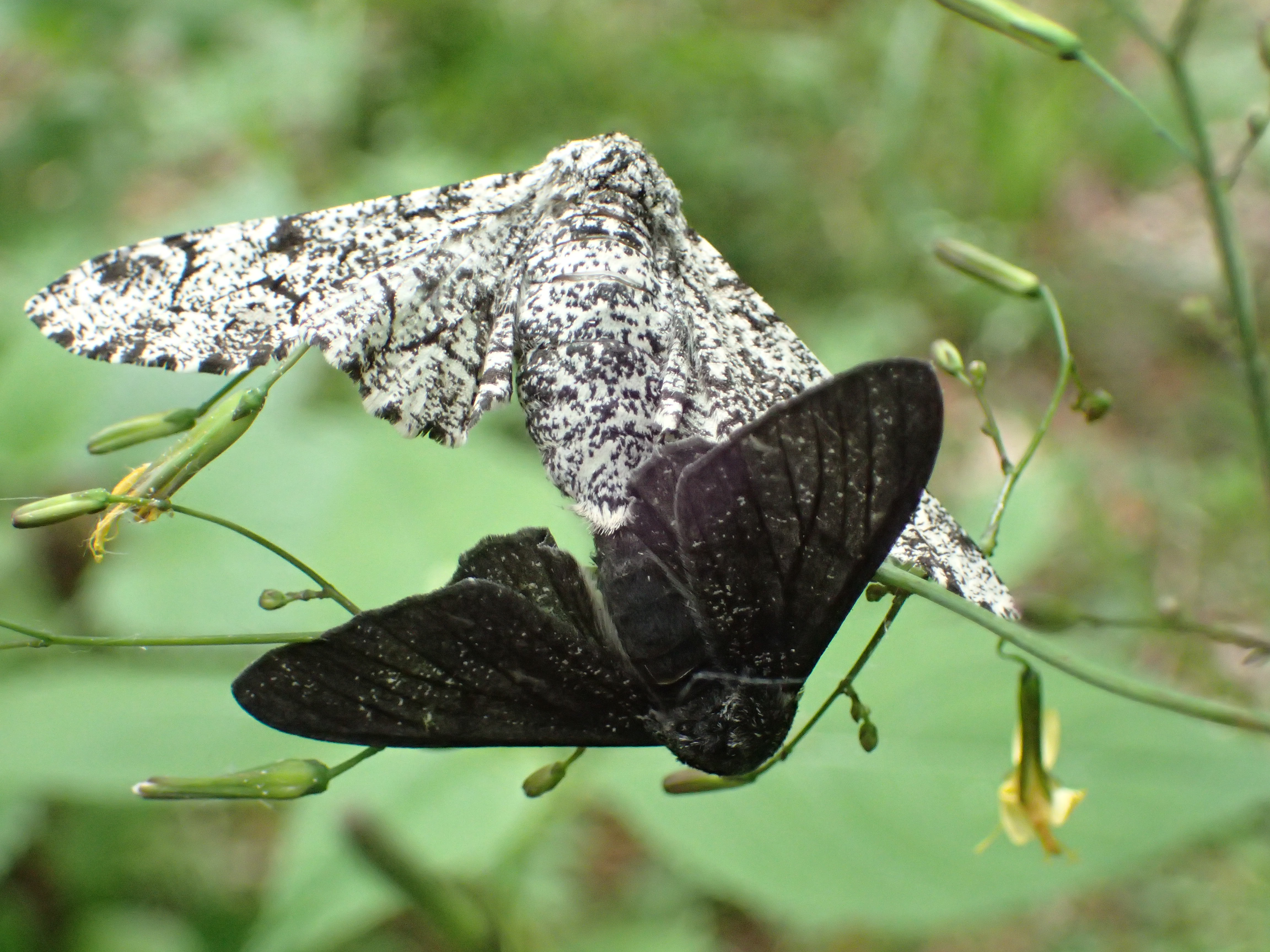 Biston betularia couple from normal and dark form, from Germany, Sachsen-Anhalt, near Güntersberge